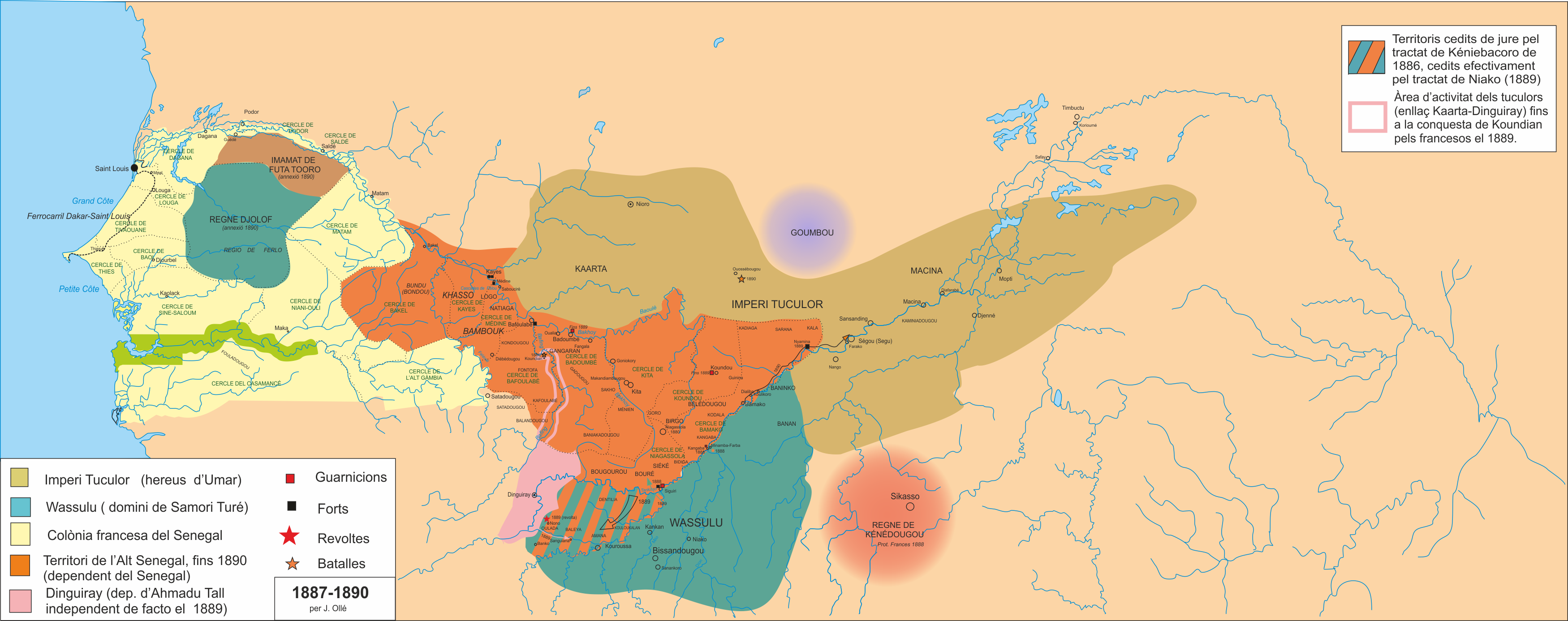 Senegal & Mali 1887-1890